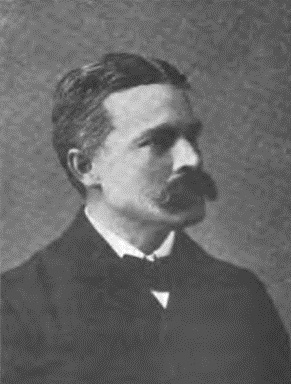 Barton Warren Evermann (1853−1932) — an American ichthyologist. Author, academic, and director of the California Academy of Sciences in San Francisco.